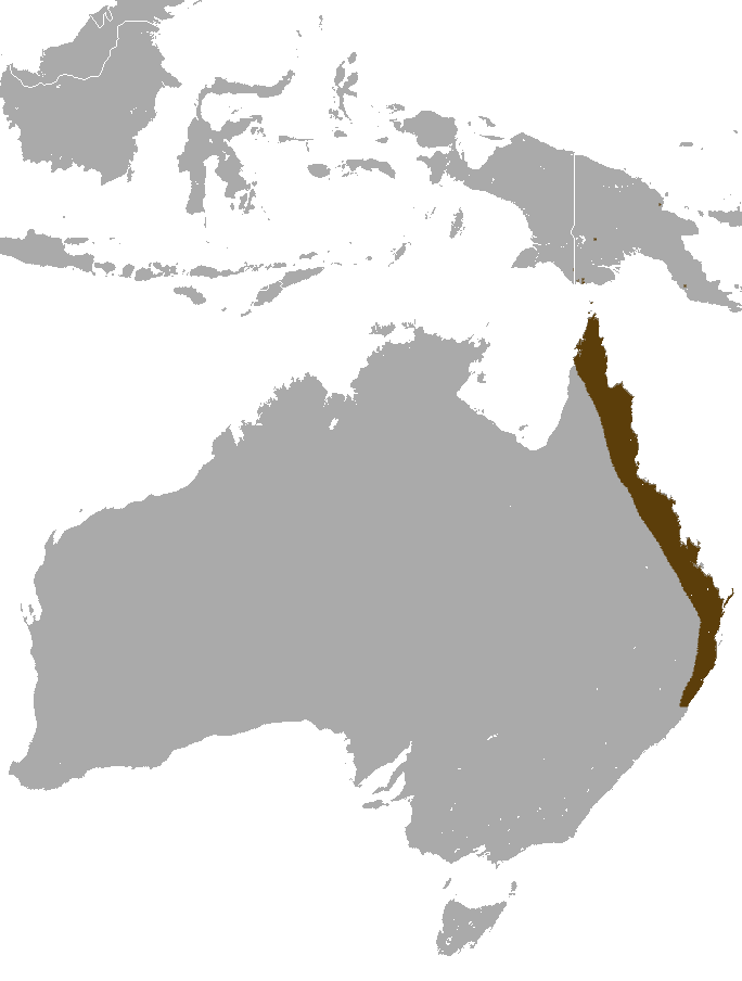 Eastern Tube-nosed Bat (Nyctimene robinsoni) range